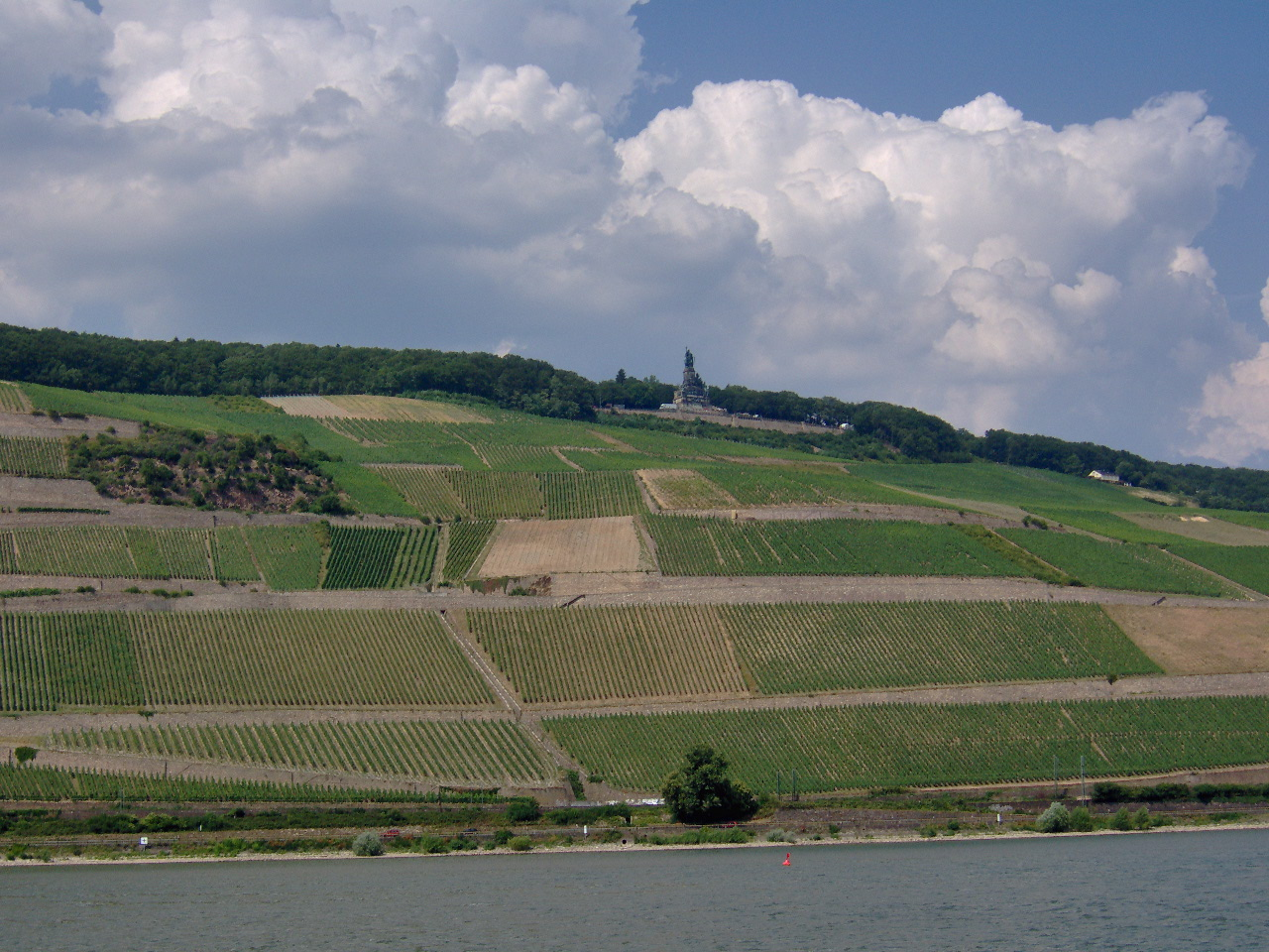 A vineyard off the bank of the Rhine River in Germany (Location: Ruedesheim in the Rheingau, Germania Monument (Niederwalddenkmal)).